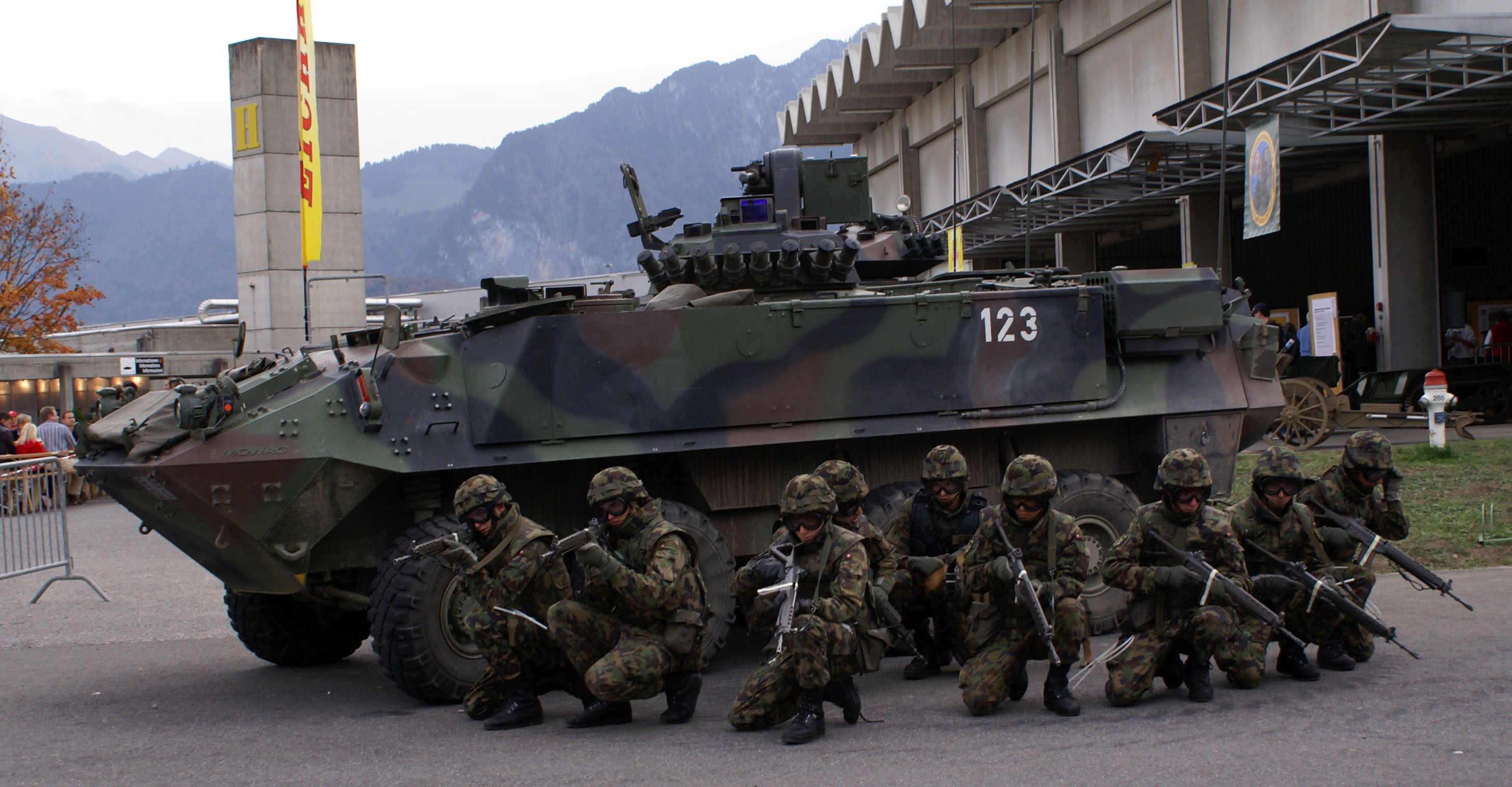 Swiss Army. Infantry squad and Mowag Piranha ATC. Building search demonstration. The white tape on the rifles is for the sealing of weapons pointed at people for training purposes.